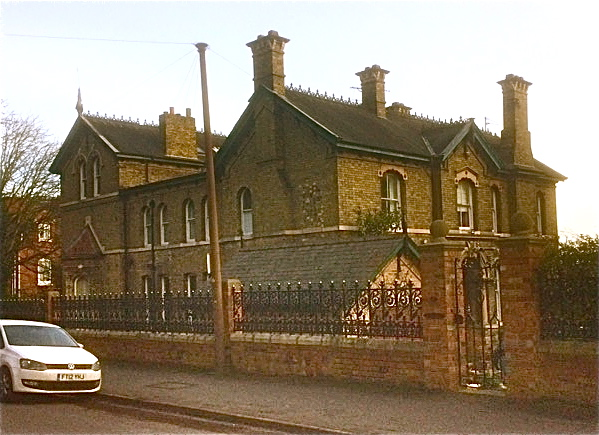 16 Lindum Terrace, Lincoln 1872.